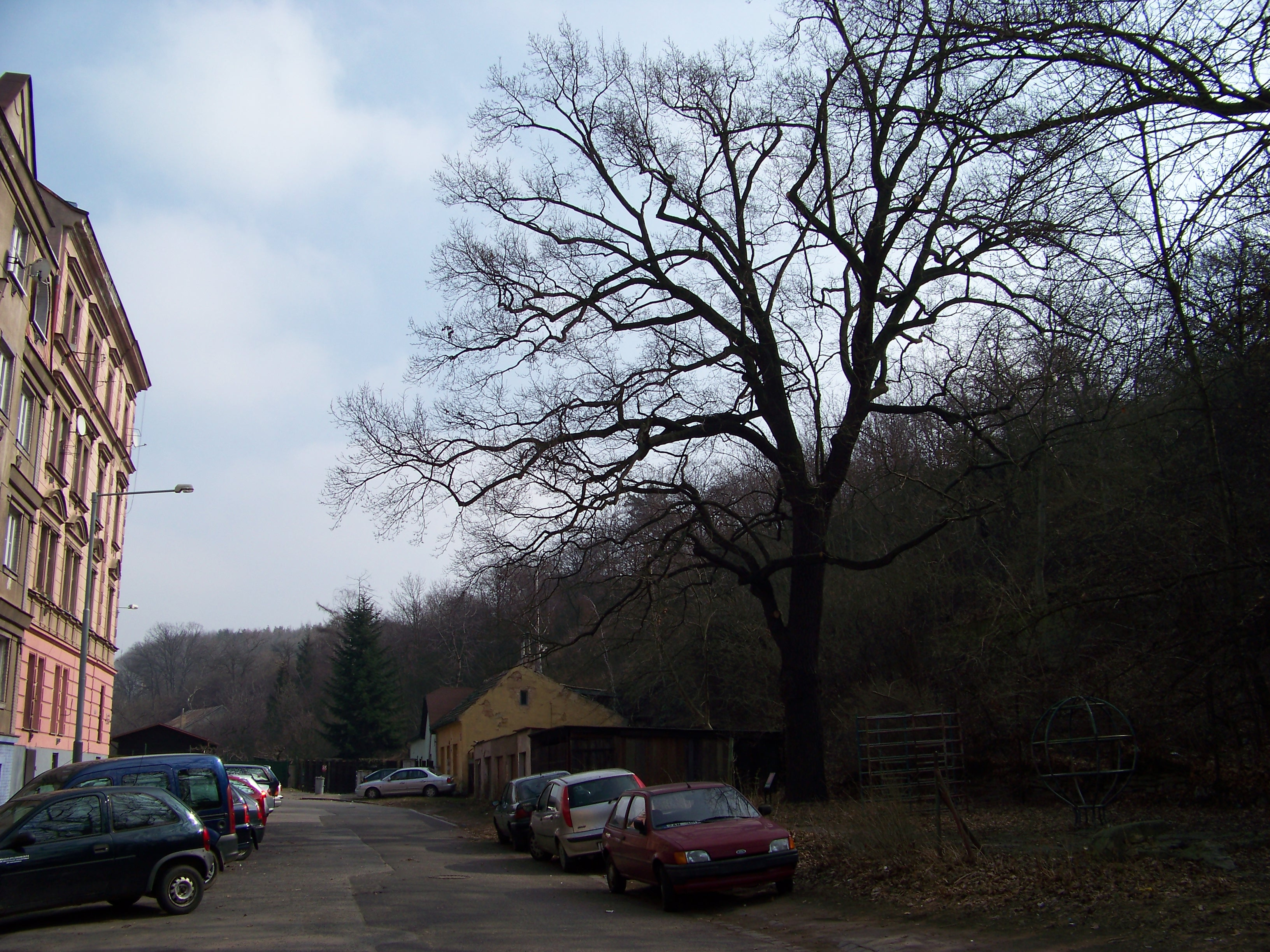 Prague-Libeň, the Czech Republic. Pod Labuťkou street, a memorable oak.